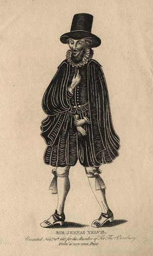 Engraving of Sir Gervase Helwys